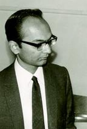 Indo-American mathematician Raghavan Narasimhan. The picture is an extraction for purposes of illustrating the person.